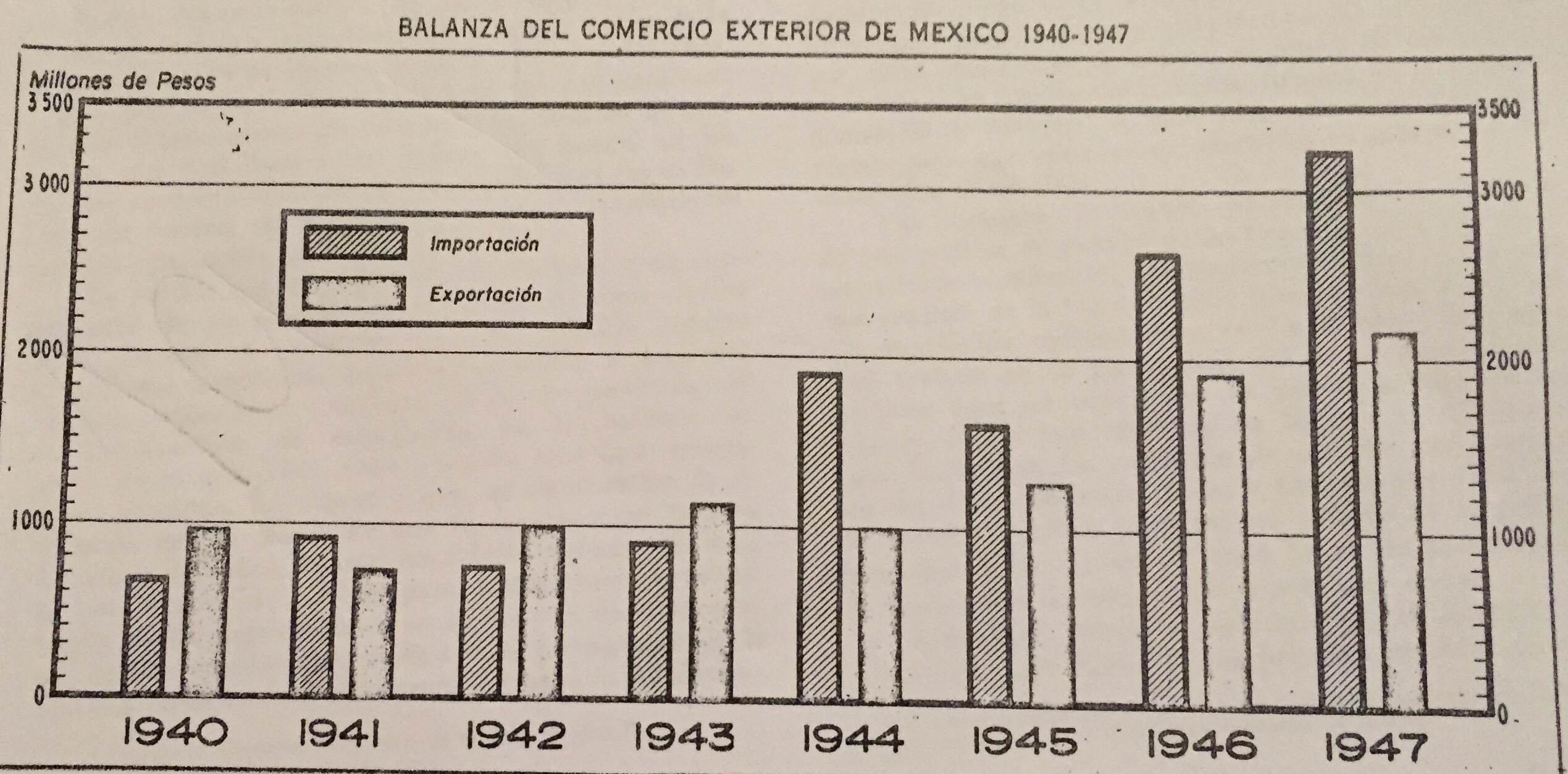 Foreign Trade of México